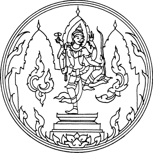 Provincial seal of Lopburi province.